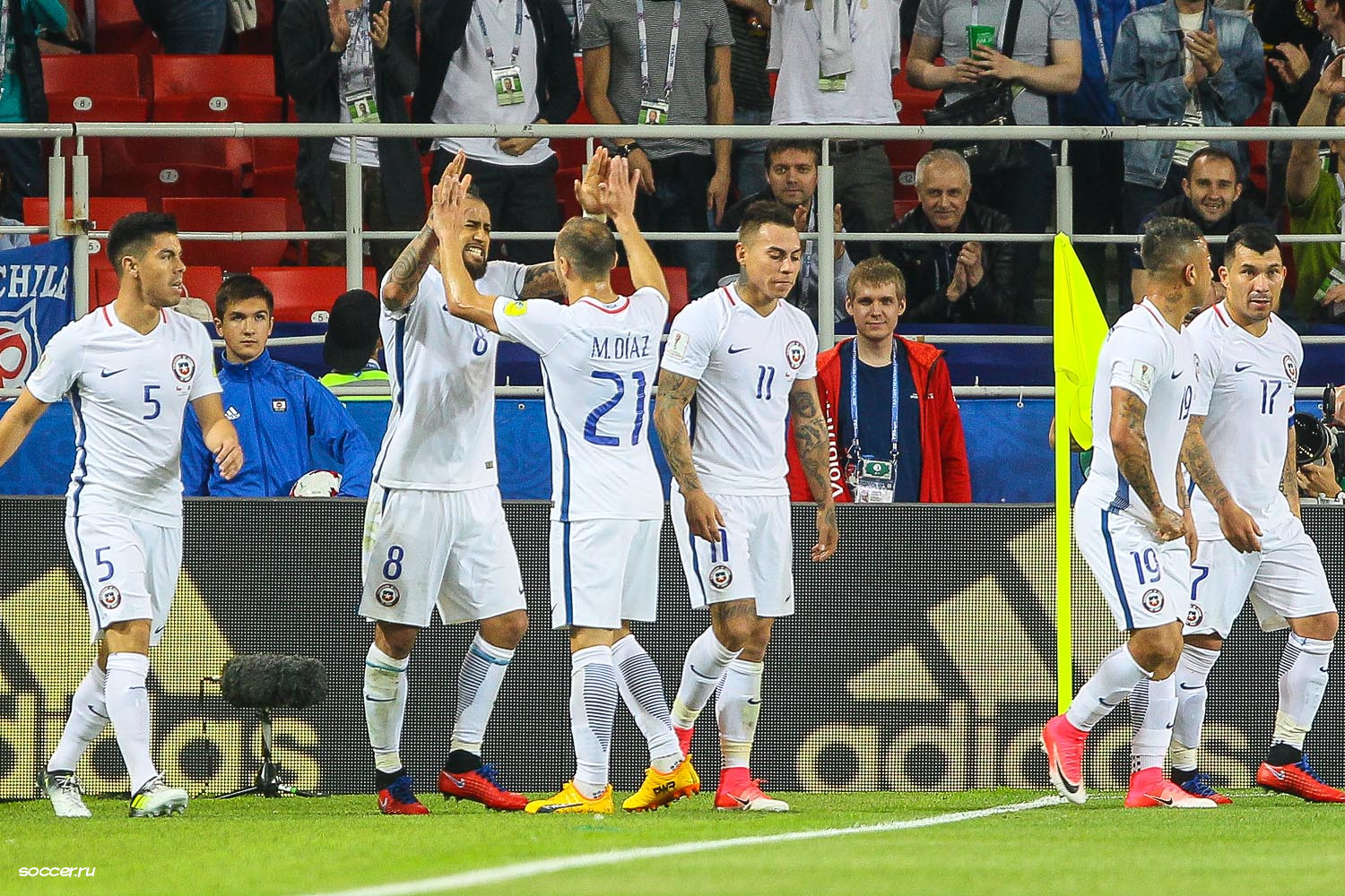 Cameroon vs Chile (0-2). FIFA Confederations Cup 2017